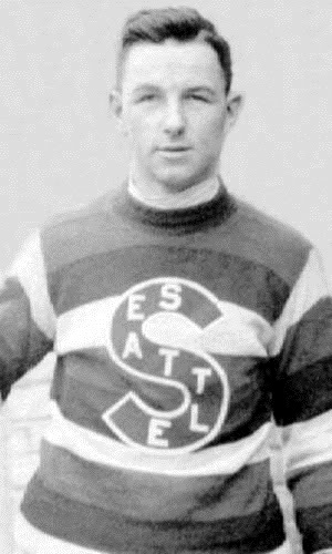 Hockey player Roy Rickey with the Seattle Metropolitans around 1917.